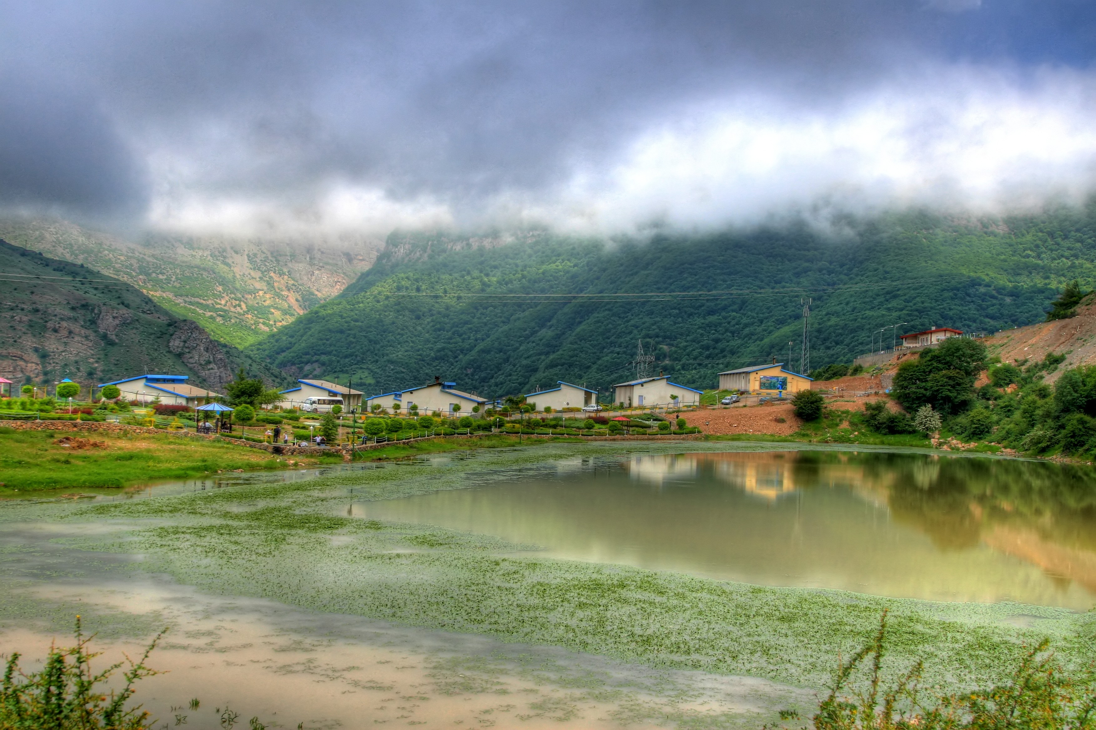 Siah Bisheh village in Alborz mountains, Iran